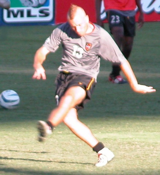 Clint Mathis at pre-game warmups at the home depot center.